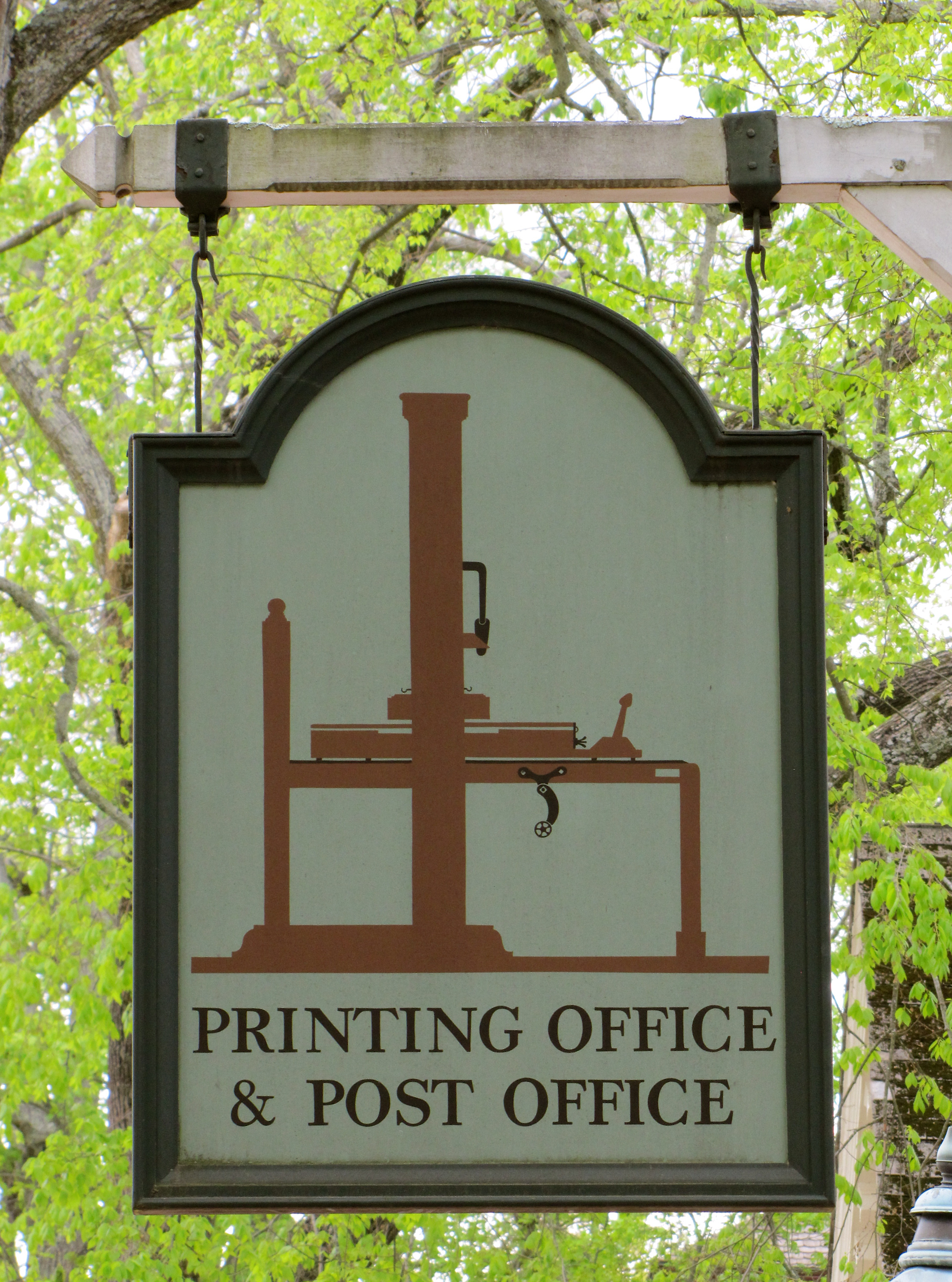 Shop sign in Colonial Williamsburg